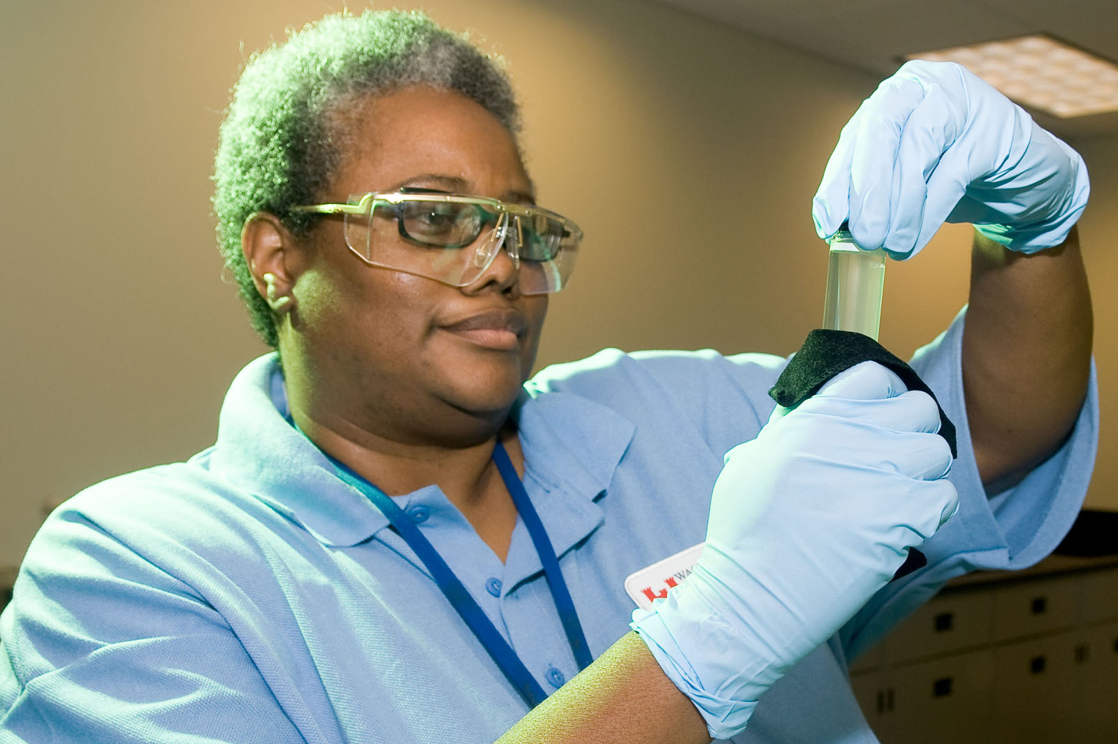 A scientist inspects a water sample. In 2010, EPA identified a list of 134 chemicals that will be screened for their potential to disrupt the endocrine system. Endocrine disruptors are chemicals that interact with and possibly disrupt the hormones produced or secreted by the human or animal endocrine system, which regulates growth, metabolism and reproduction. The list includes chemicals that have been identified as priorities under the Safe Drinking Water Act (SDWA) and may be found in sources of drinking water where a substantial number of people may be exposed. The list also includes pesticide active ingredients that are being evaluated under EPA’s registration review program to ensure they meet current scientific and regulatory standards. The data generated from the screens will provide robust and systematic scientific information to help EPA identify whether additional testing is necessary, or whether other steps are necessary to address potential endocrine disrupting chemicals. Eric Vance, photographer.